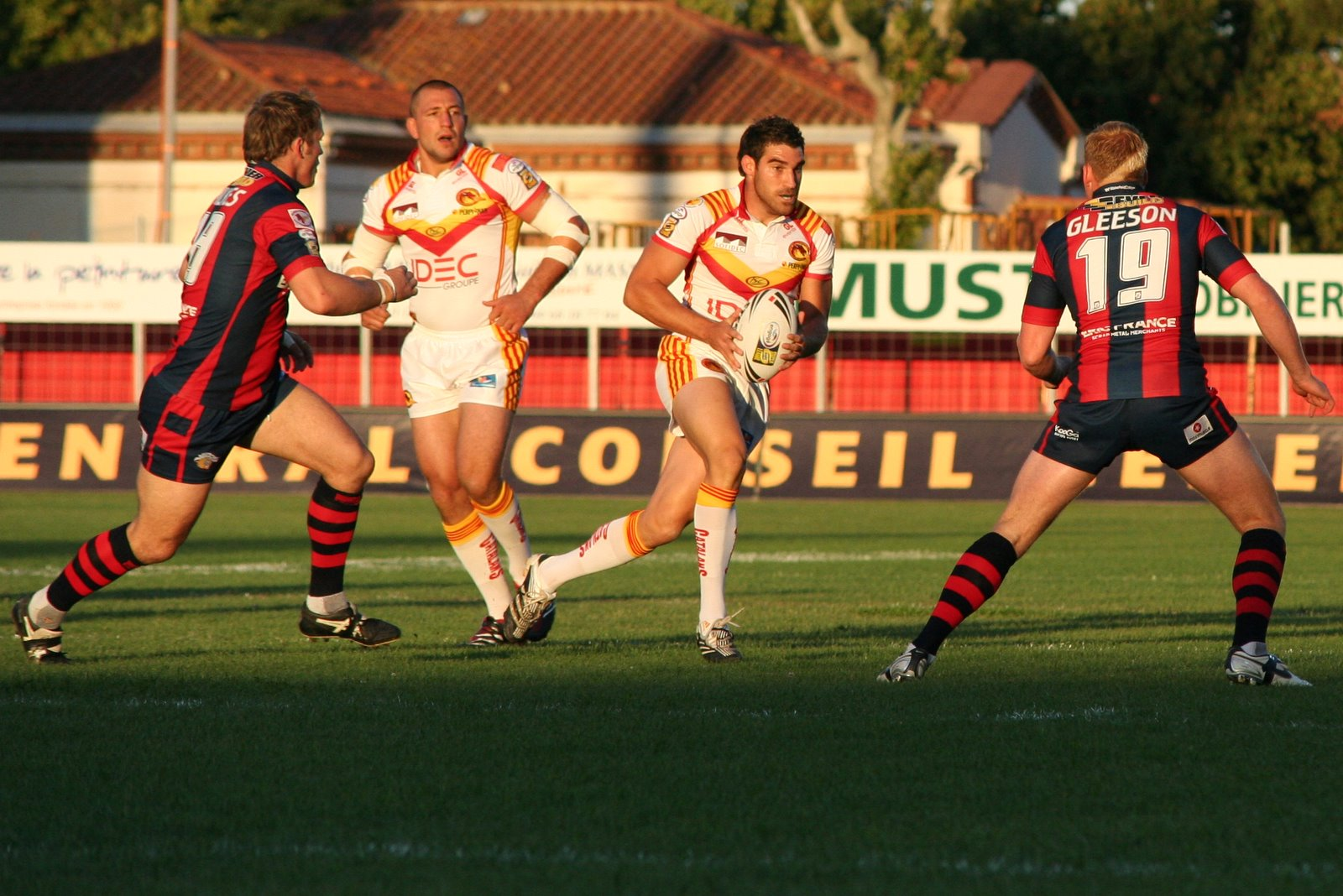 Photo of Catalans Dragons player in a match agains Wakefield Wildcats in the 2008 Super League